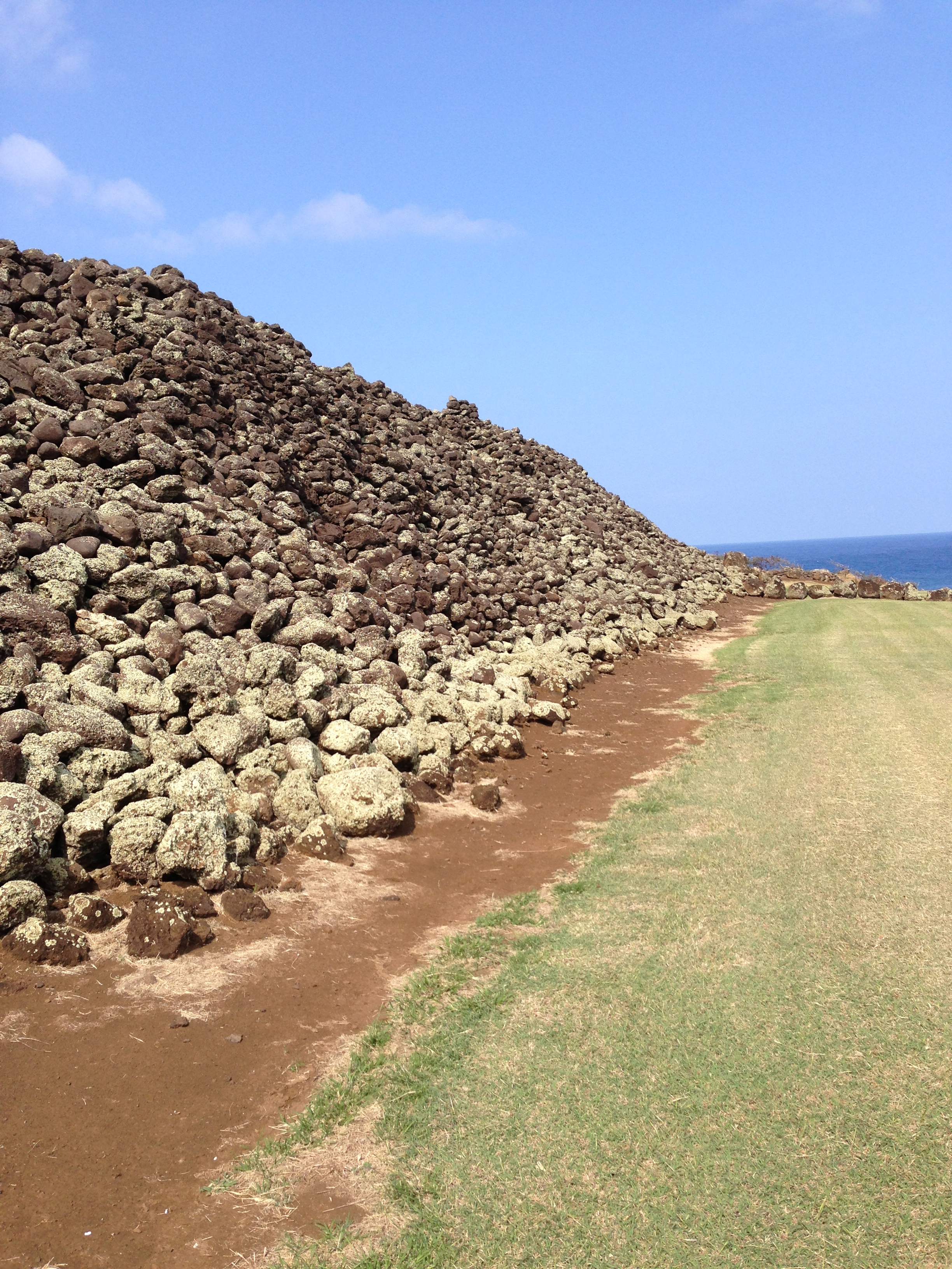 Mookini Heiau, Northern tip of Hawaii, 1 mile west of Upolu Point Airport Hawi